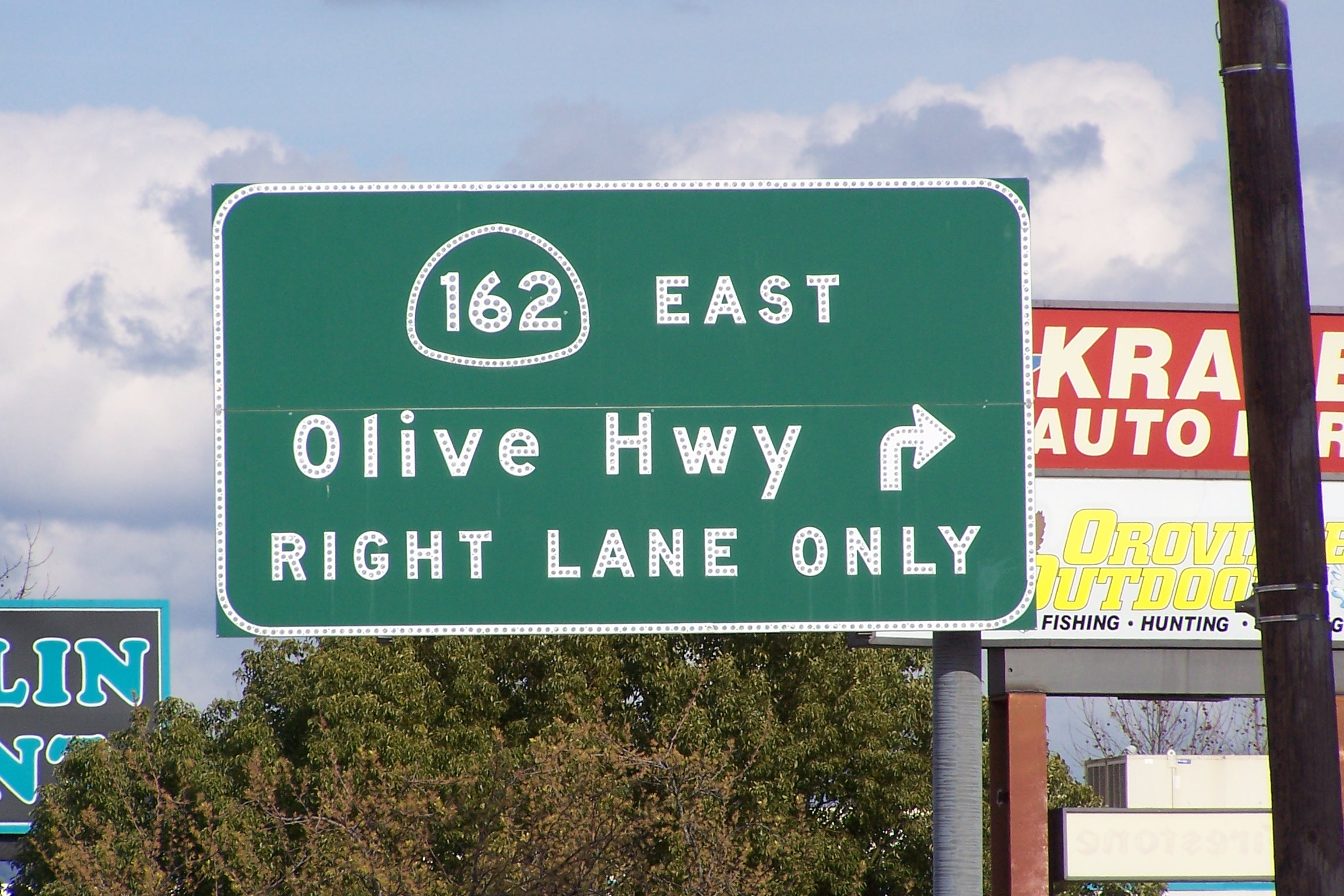 Personal Photo